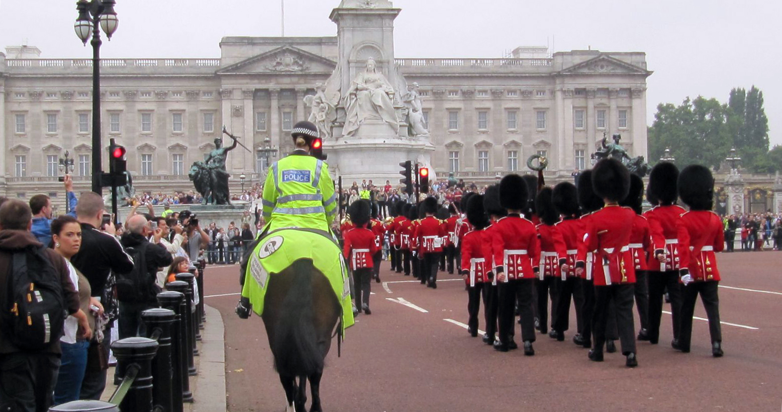 London, England.